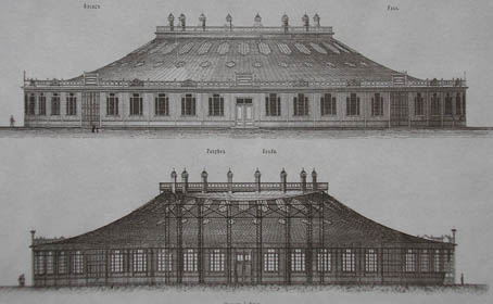 Rotunda-pavilion - the world's first steel tensile structure by the great Russian engineer and scientist Vladimir Shukhov (1853-1939) in 1896. The All-Russia industrial and art exhibition 1896 in Nizhny Novgorod.